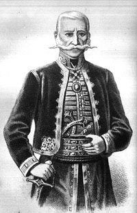 Jakov Nenadović (1765-1836)